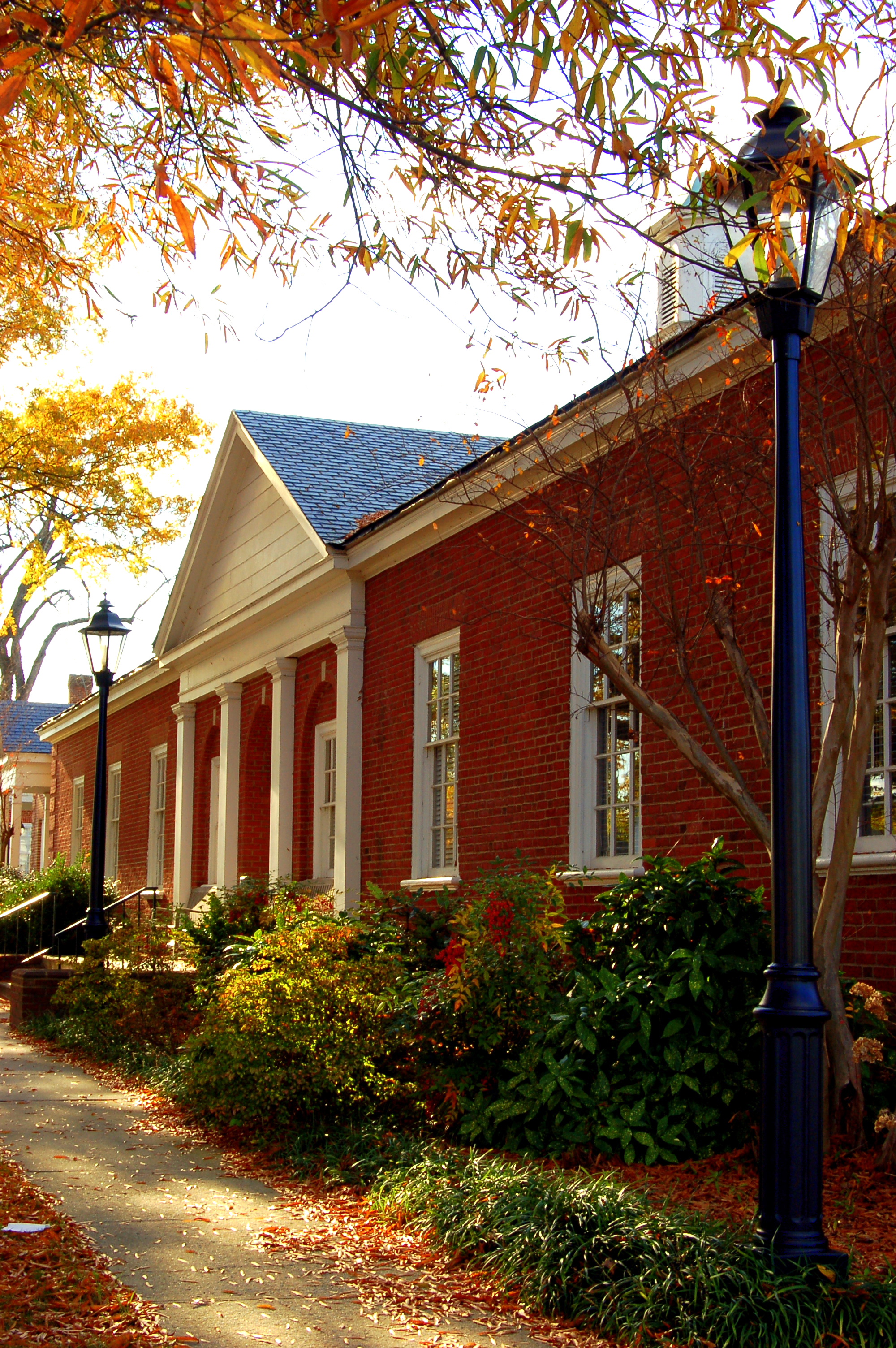 The current Cumberland County Courthouse in Cumberland, Virginia, USA, built 1965.